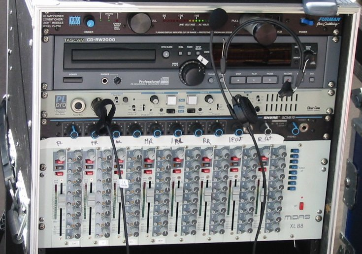 Photograph of several professional audio devices in a 19-inch rack. From the top down there is a power conditioner, a CD player, an intercom station, an automixer and a matrix mixer. Furman PL-PRO - 20 AMP Power Conditioner / Light Module TASCAM CD-RW2000 Professional CD-RW Recorder Clear-Com PL Pro RM-220 2-Channel Remote Intercom Station (manual) Shure SCM810 8-Channel Automatic Mixer Midas XL88 8x8 Matrix Mixer (manual)